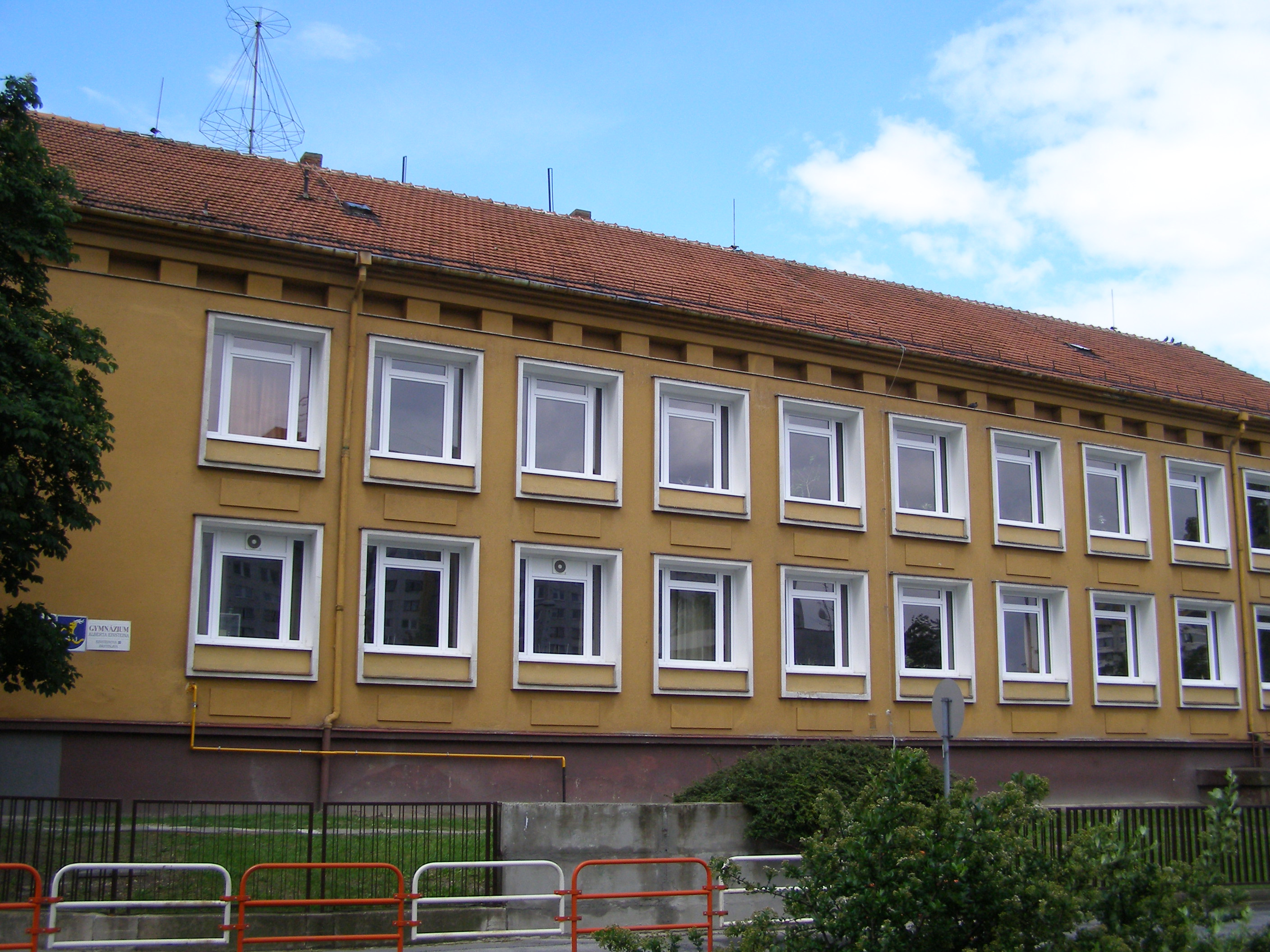 free to use, author: kelovy